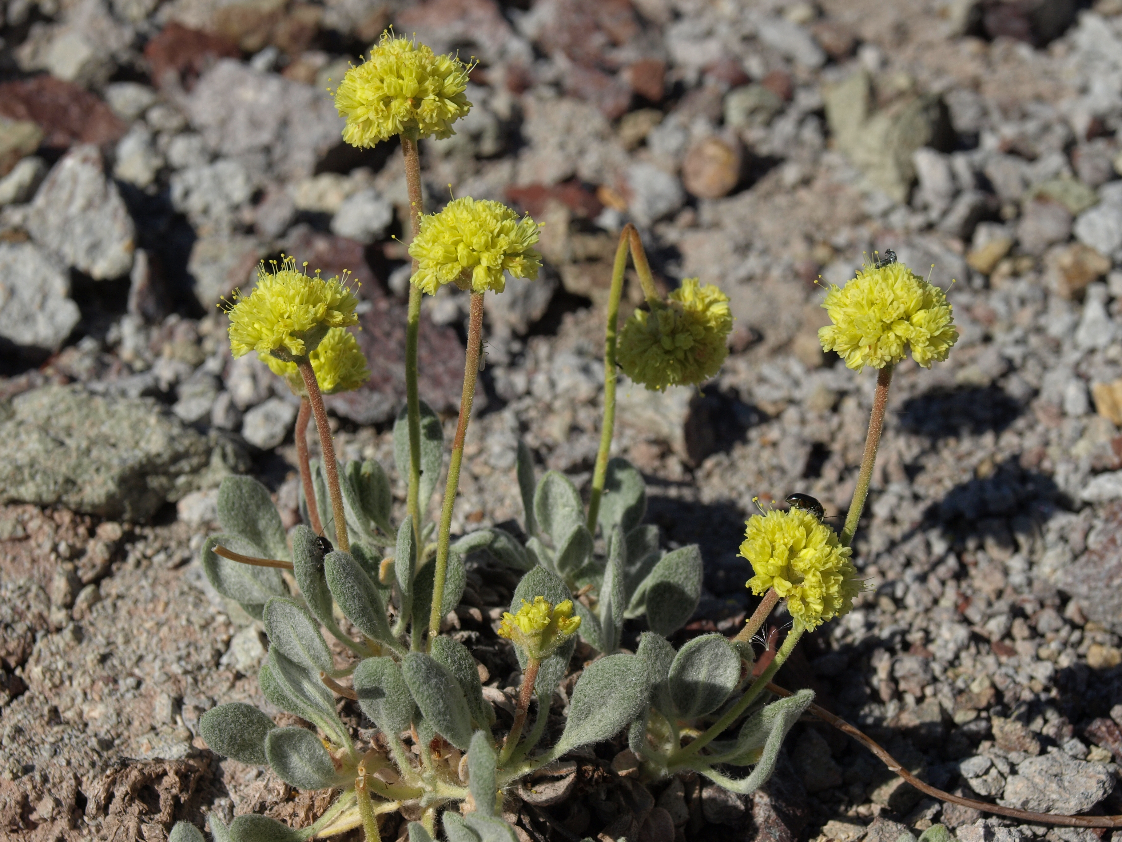 Beatley buckwheat, Eriogonum rosense var. beatleyae, Nevada, White Mountains, Sugarloaf, Queen Valley - Owens Valley drainage, elevation 2673 m (8770 ft). This rare variety is endemic to west-central Nevada at elevations up to about 2800 meters (9200 feet), usually on clay soils derived from volcanic materials. It's somewhat more common sibling, var. rosense, is found a little farther west in the Sierra Nevada and adjacent Great Basin ranges, at higher elevations up to about 4000 meters (13000 feet), usually on rocky or gravelly, non-clay soils. Both varieties are easily recognized by their combination of densely glandular, non-cobwebby stems and bright yellow flowers. The var. beatleyae has longer leaves with broader, rounder blades, and somewhat larger flowers, than var. rosense. Eriogonum rosense is named for its type location on the summit of Mount Rose between Reno and Lake Tahoe. The var. beatleyae is named for Janice C. Beatley (1919-1987), ecologist and botanist on the Nevada Test Site.